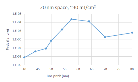 The probability of stochastic failure is plotted vs. pitch for 20 nm space widths at an EUV dose of ~30 mJ/cm2.[1] Points below 0.5 ppm are extrapolated. When the distance between exposed 20 nm spaces exceeds about 25-30 nm, the failure probability starts to increase. There is a contribution from secondary electron straggling in the ~20 nm range.[2]